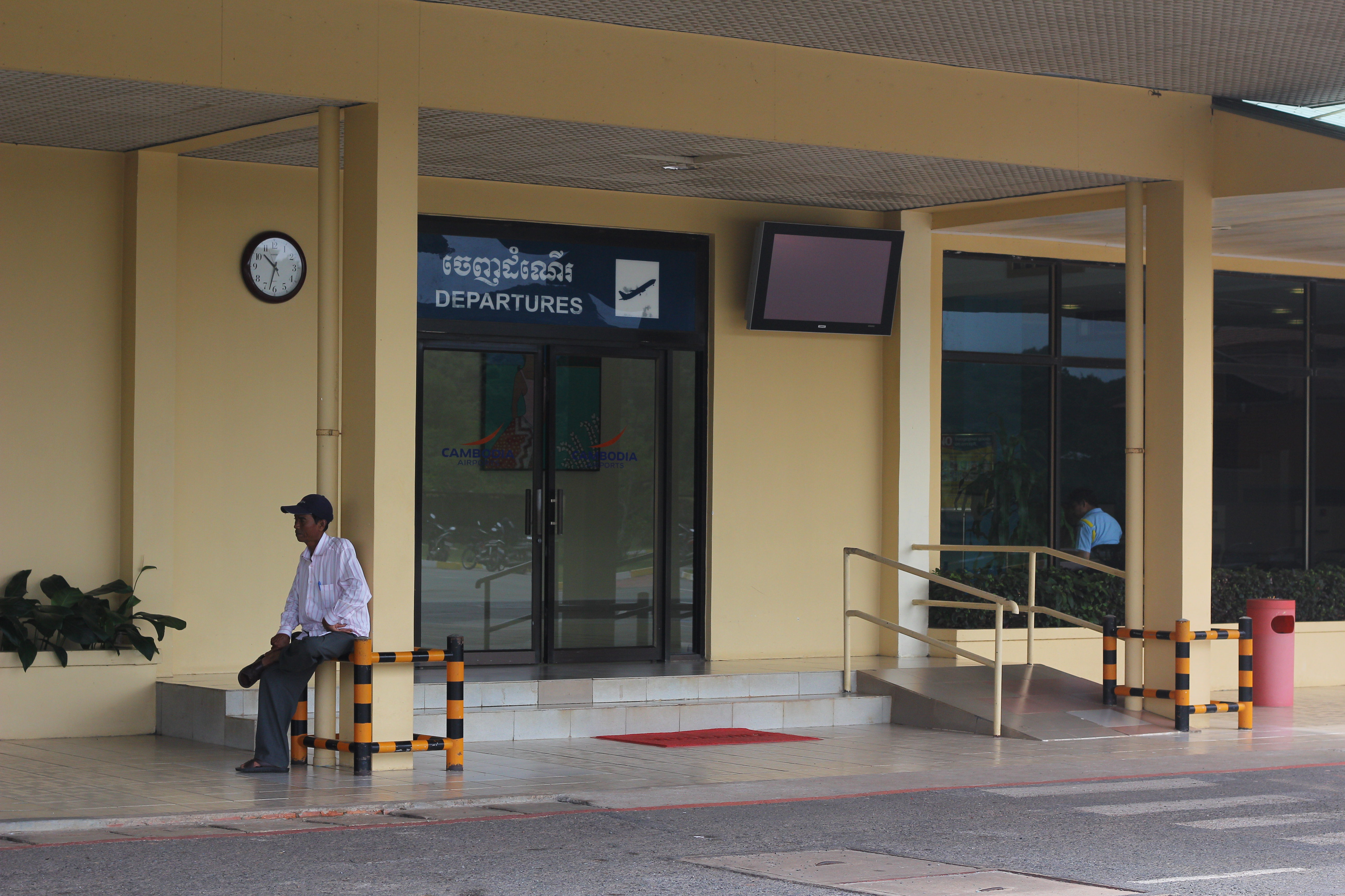 Sihanouk International Airport.